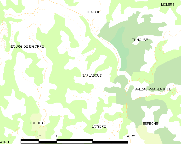 Map of French municipality